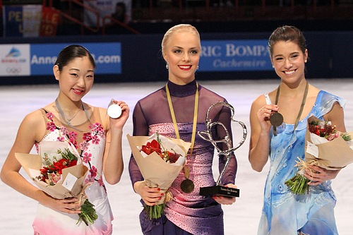 Mirai Nagasu (2), Kiira Korpi (1), Alissa Czisny (3) at the 2010 Trophy Eric Bompard.